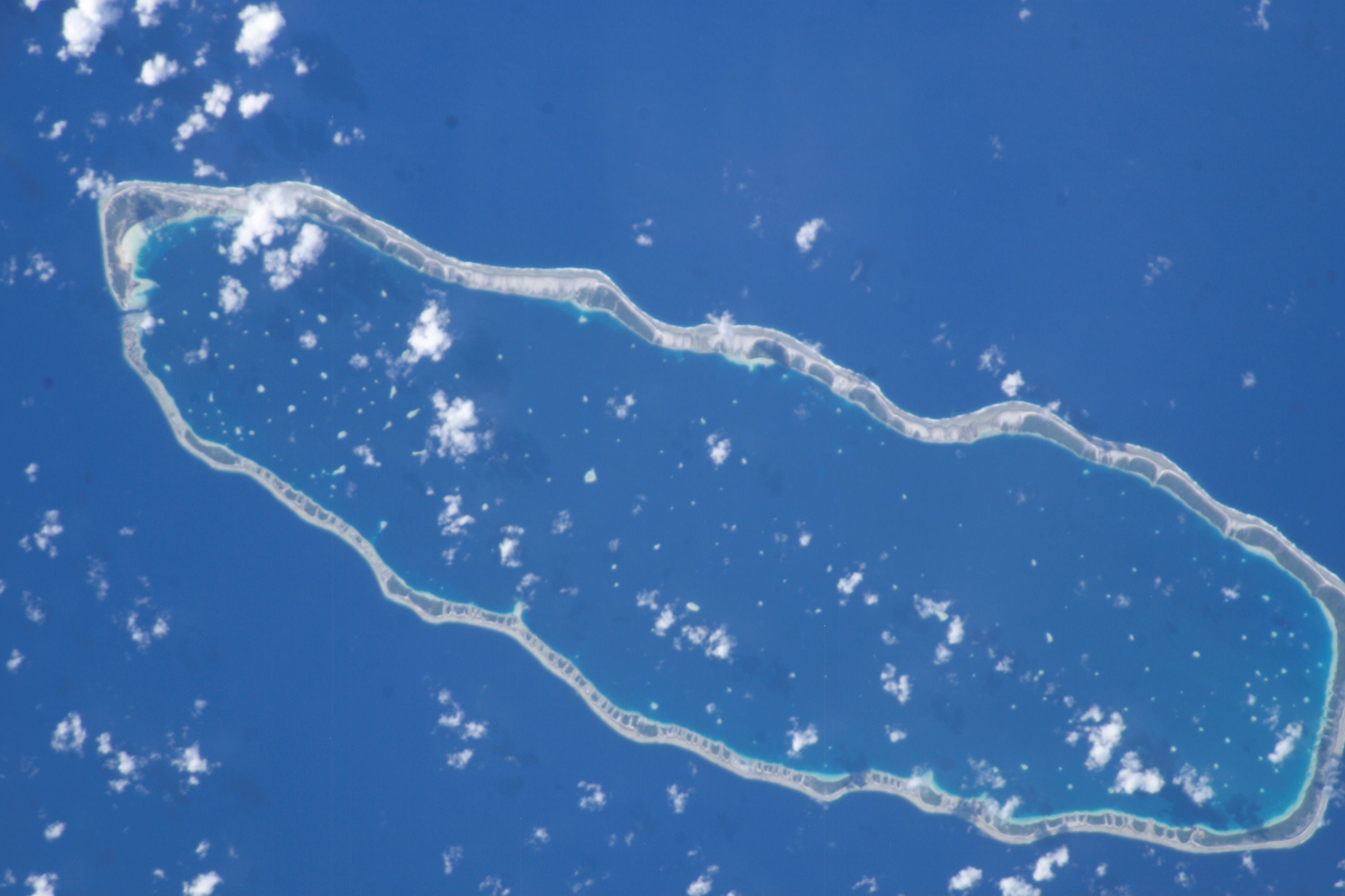 NASA astronaut image of Manihi Atoll (Tuamotu Archipelago, French Polynesia) in the Pacific Ocean